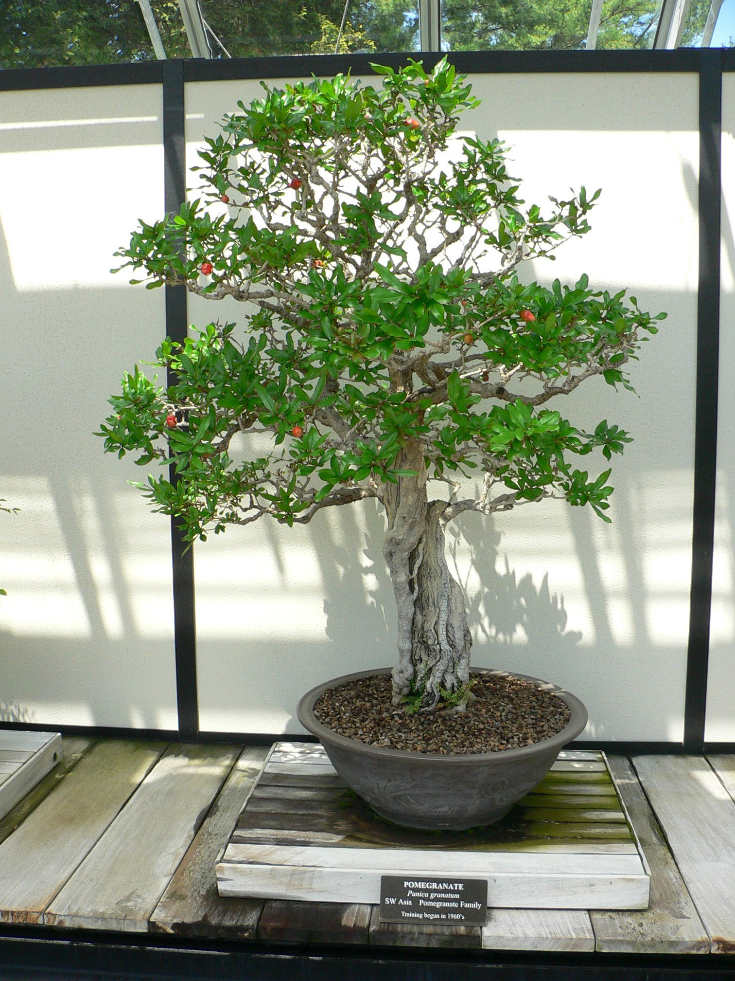 Pictures taken by myself at Longwood Gardens